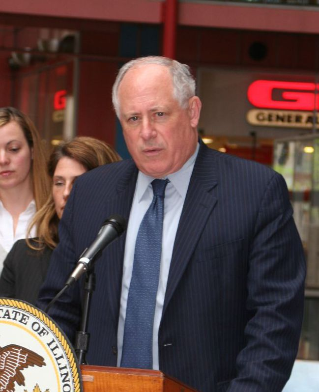 Gov. Pat Quinn making a point at Green Expo